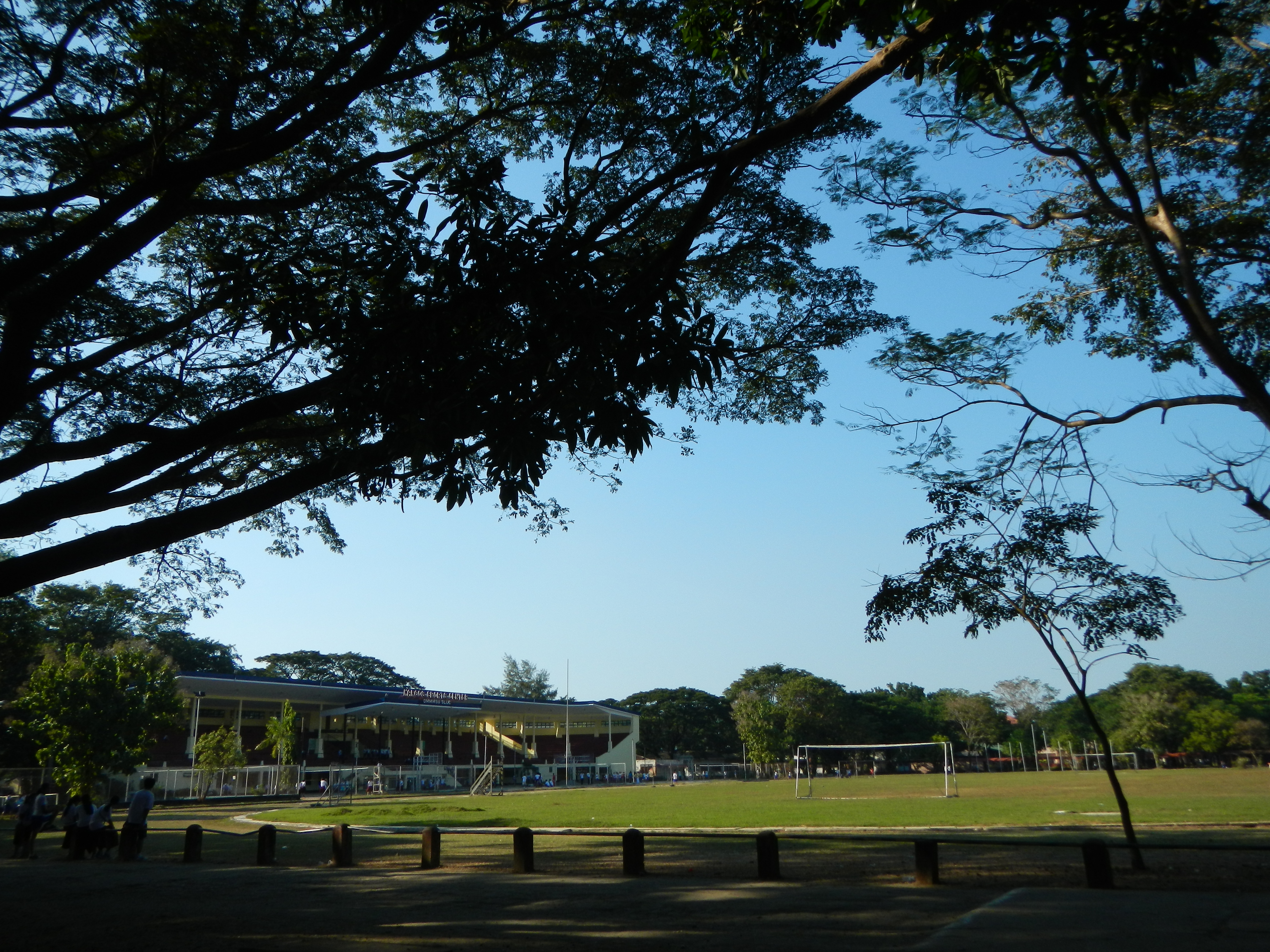 Consolacion, Agoo, La Union Gonzales Street Metro Agro Water Agoo East Central School Doña Toribia Aspiras Road Denny's Park - Marcos Sports Center LUELCO Agoo Branch DMMMSU - South La Union Campus Don Mariano Marcos Memorial State University Our Lady of Lourdes Grotto & Prayer House - Agoo San Antonio, Agoo, La Union Agoo By-Pass Road AJS Boarding House & Transient San Miguel, Agoo, La Union Agoo Public Cemetery Category:Sitios and puroks of the Philippines Subdivisions of the Philippines List of barangays in La Union Barangay Consolacion, Agoo, La Union 16.3339, 120.3649 San Antonio, Agoo, La Union 16.3316, 120.3727 San Agustin Sur, Agoo, La Union 16.3387, 120.3625 Agoo surrounded by Cordillera Central (Luzon) to Aspiras–Palispis Highway still referred to as Marcos Highway or Agoo–Baguio Road Cordillera Administrative Region served by Bued River Basin Bued River River valleys from or to MacArthur Highway (Rosario, La Union section) of the MacArthur Highway or Manila North Road) Philippine highway network